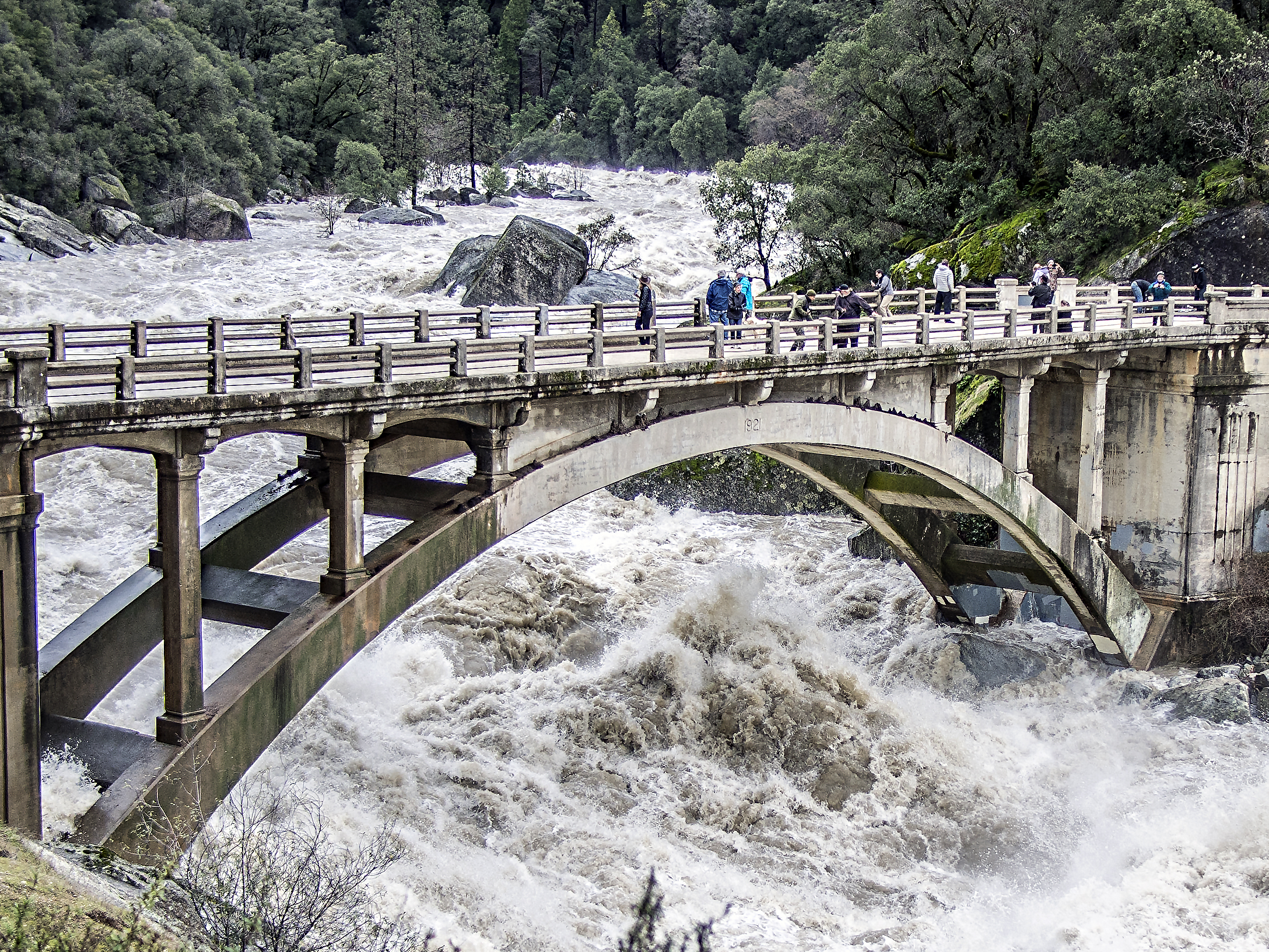 We are getting immense amounts of rain.